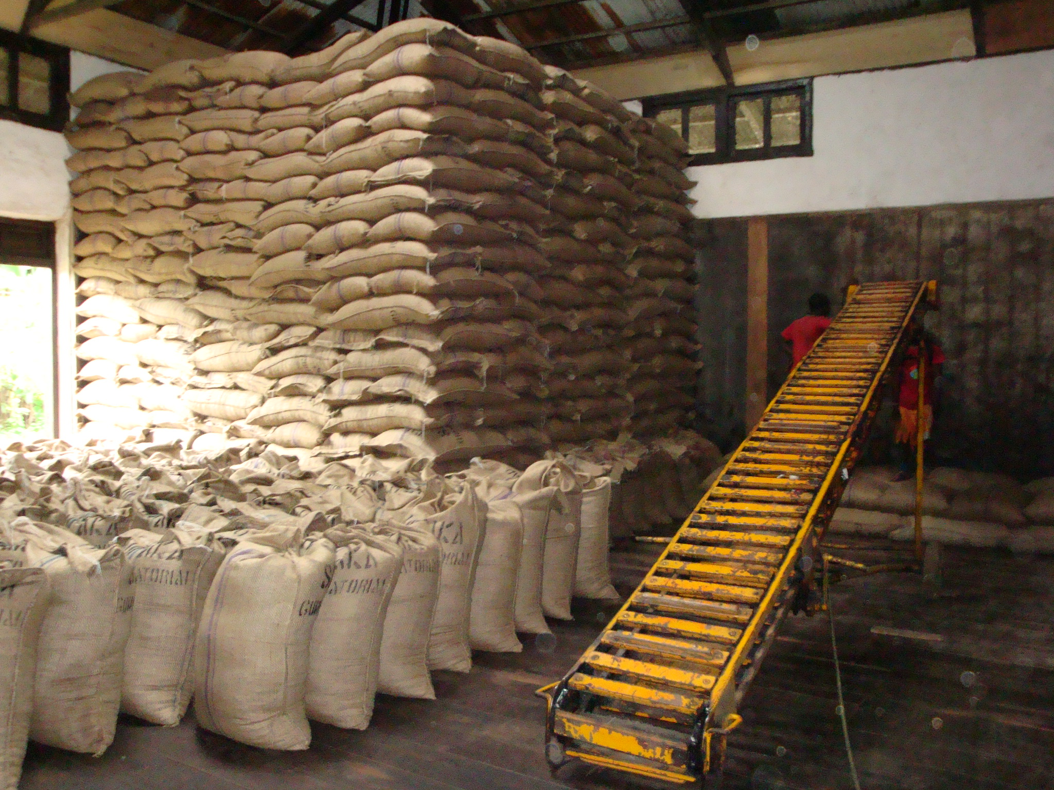 Dried cacao bags This is an image with the theme "Africa on the Move or Transport" from: Equatorial Guinea